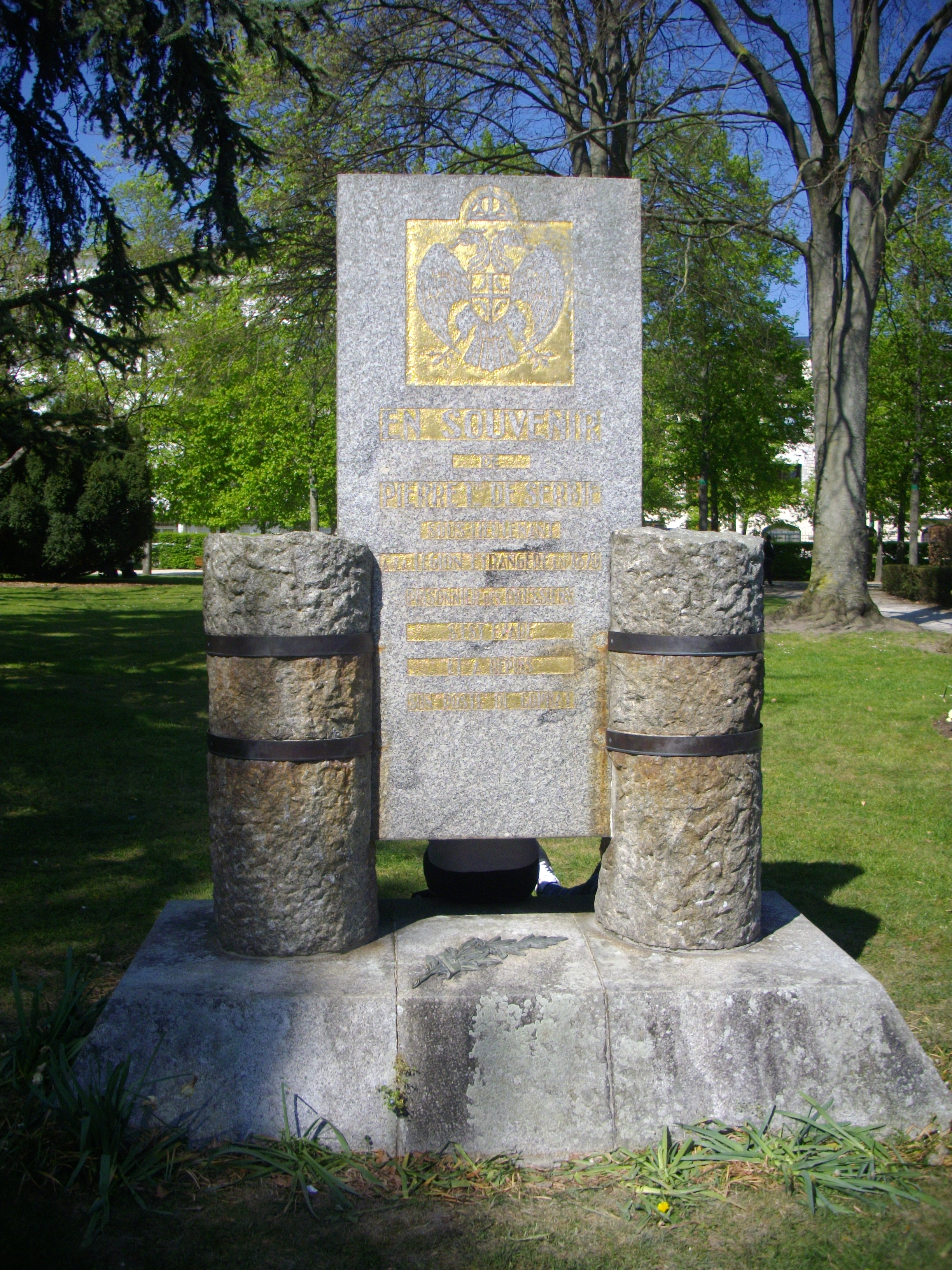 Pasteur park of Orléans (Loiret, France) : monument to Peter I of Serbia